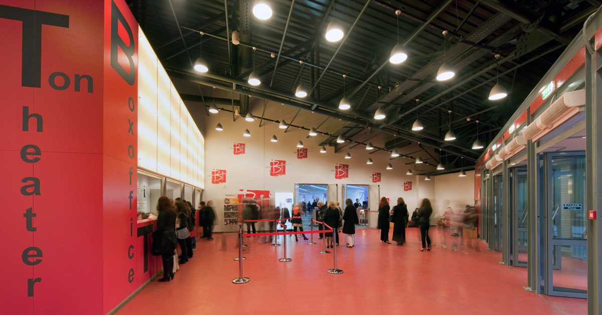 Athens Badminton Theater / Entry Hall